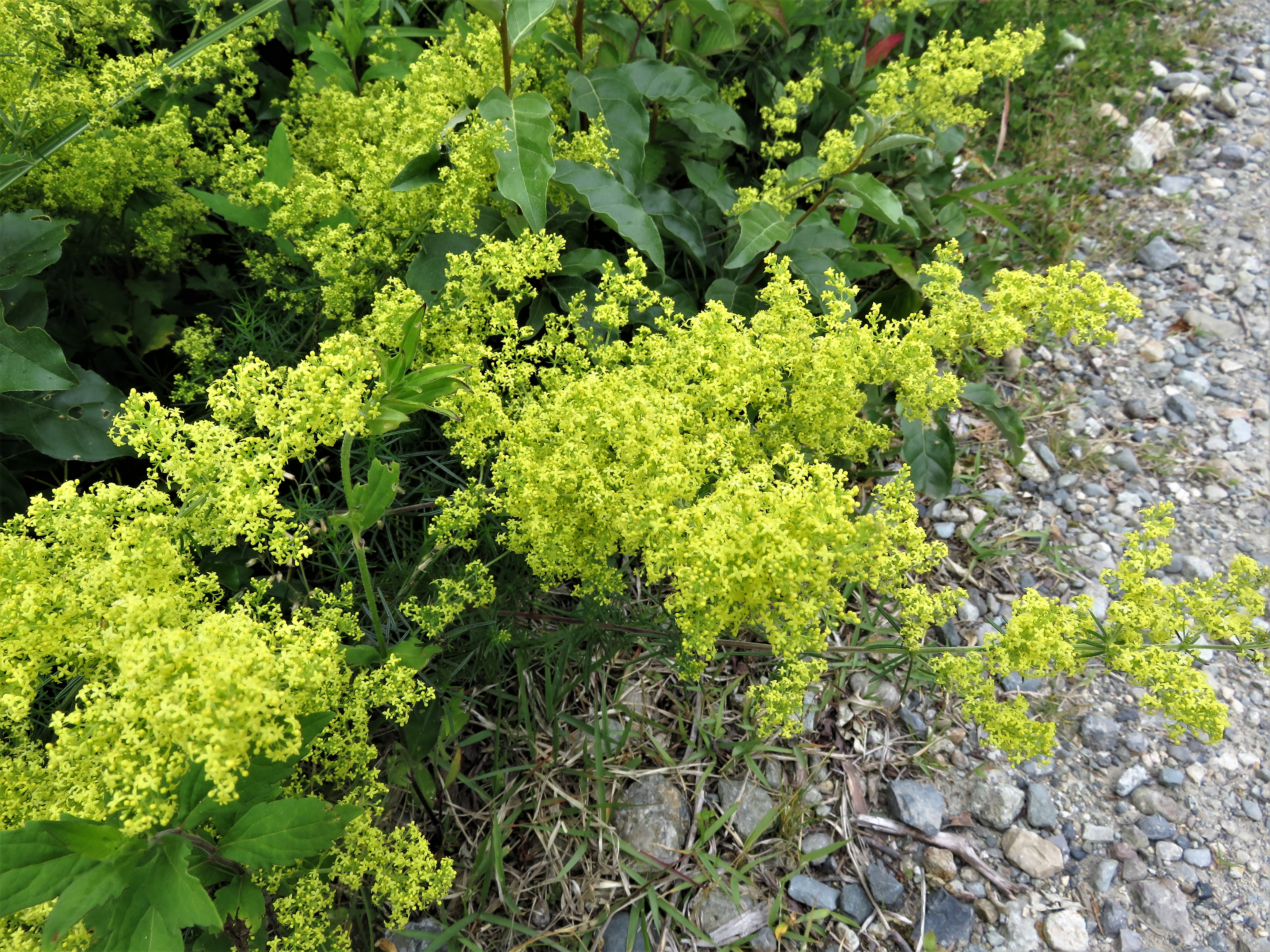 Galium verum subsp. asiaticum, Aizu area, Fukushima pref., Japan